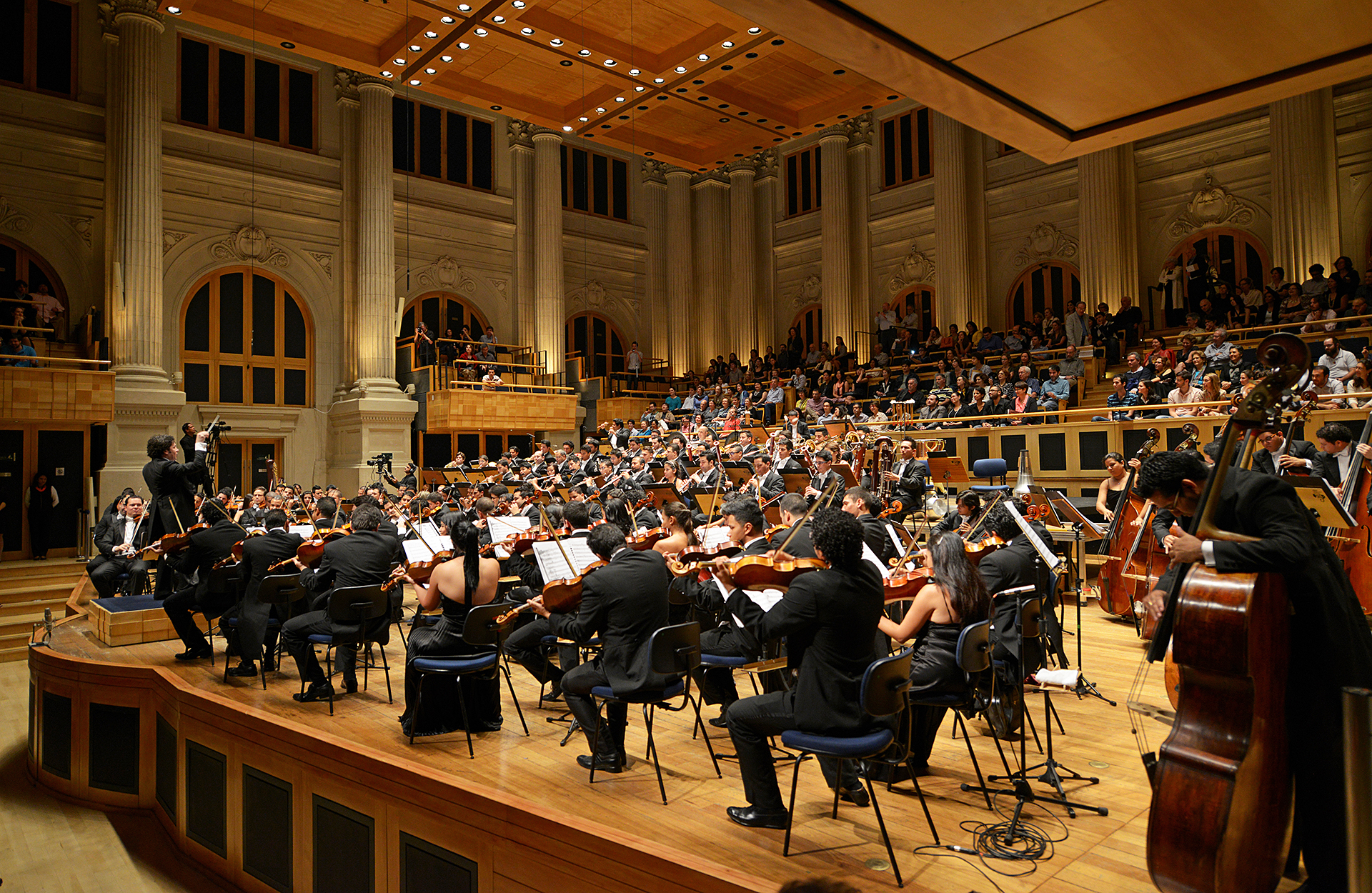 Orchestra Simon Bolivar from Venezuela during a presentation at Sala Sao Paulo, Julio Prestes Cultural Complex, Sao Paulo - SP - Brazil.